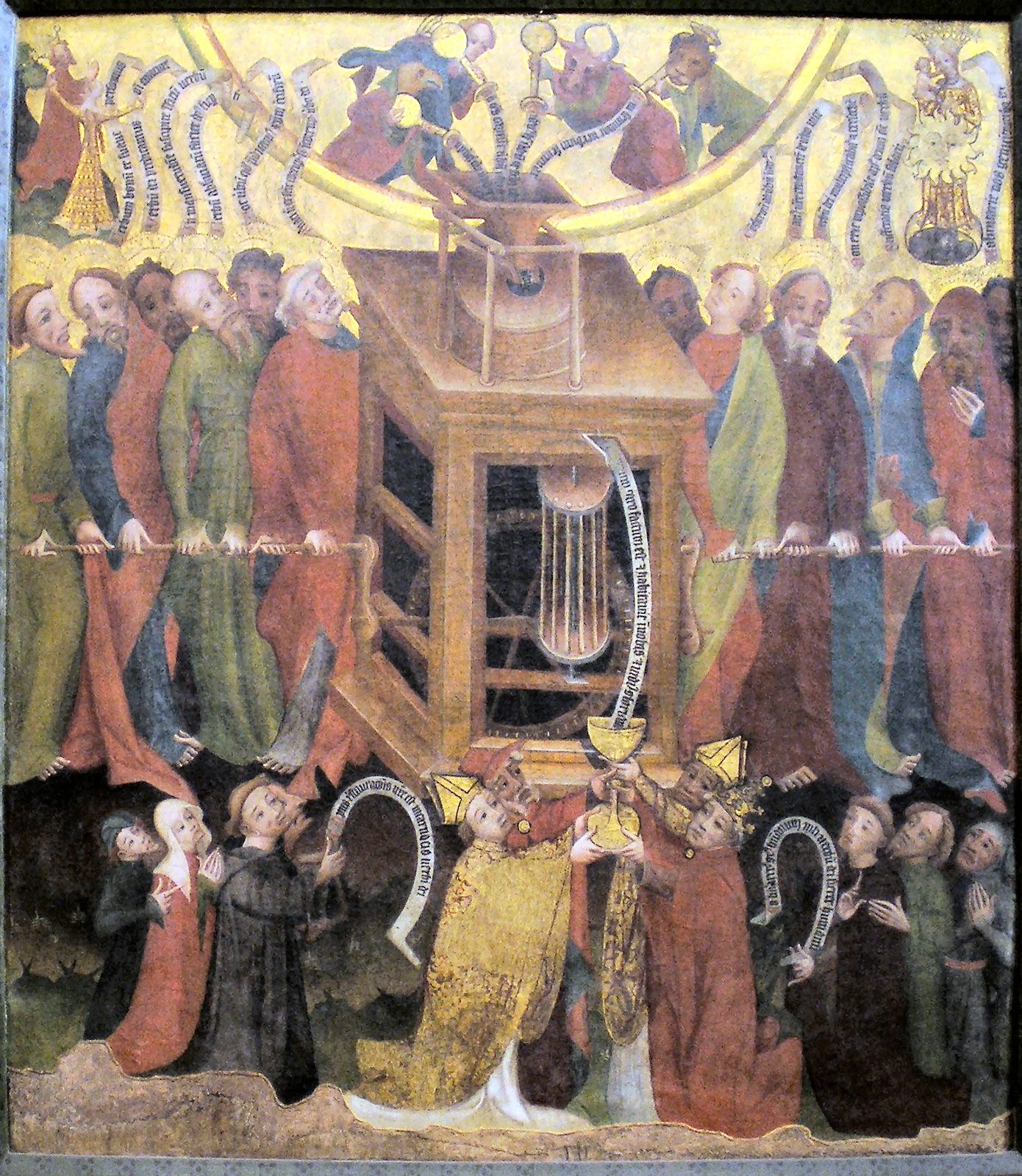 Housel mill/ Eucharistic mill in the Doberan Minster